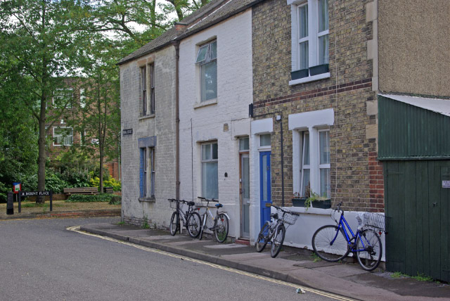 Canal Street, Jericho Bicycles propped against the walls of terraced houses are characteristic of the Jericho area. This is the northern end of Canal Street.